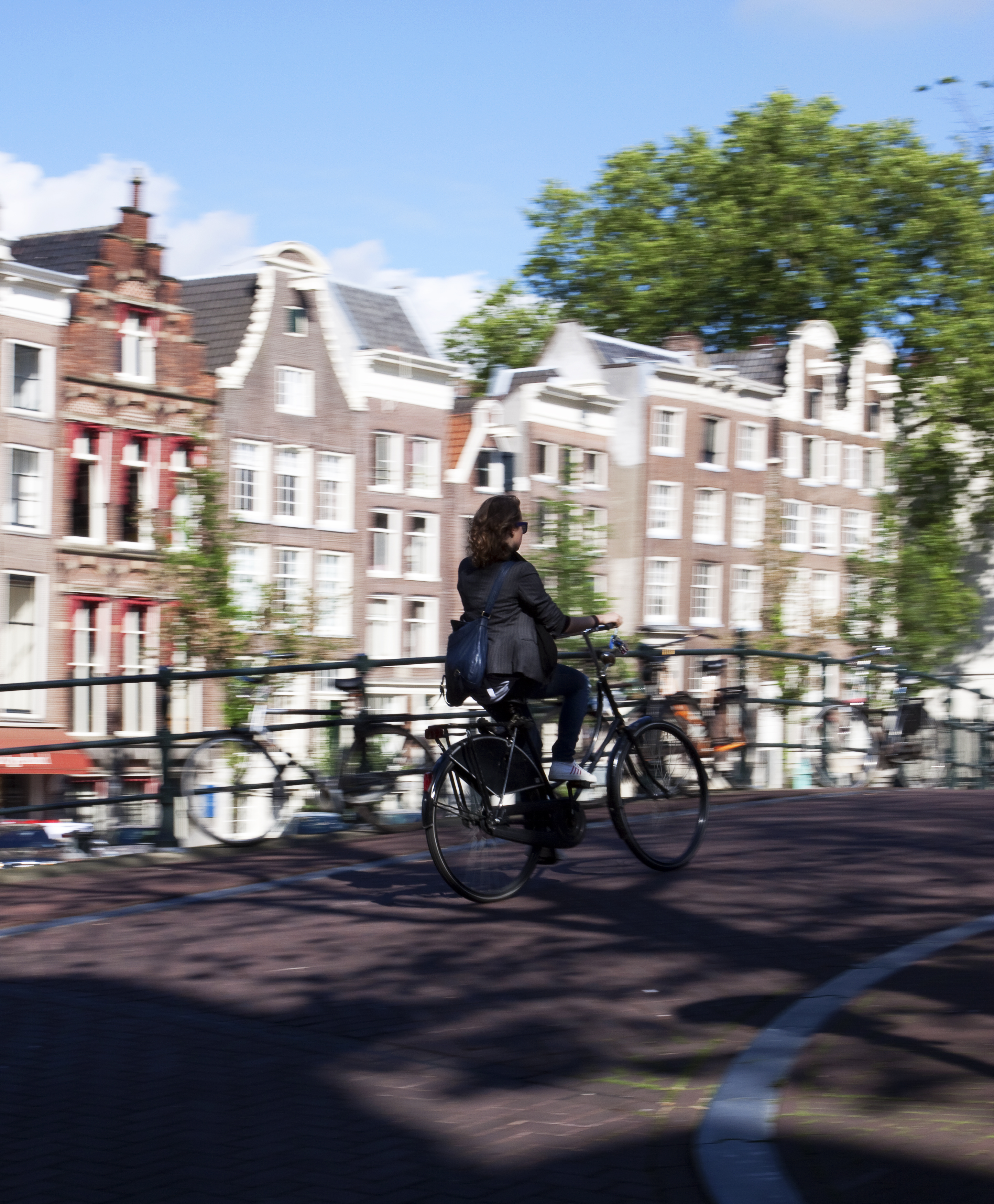 A bicyclist in Amsterdam, the Netherlands.